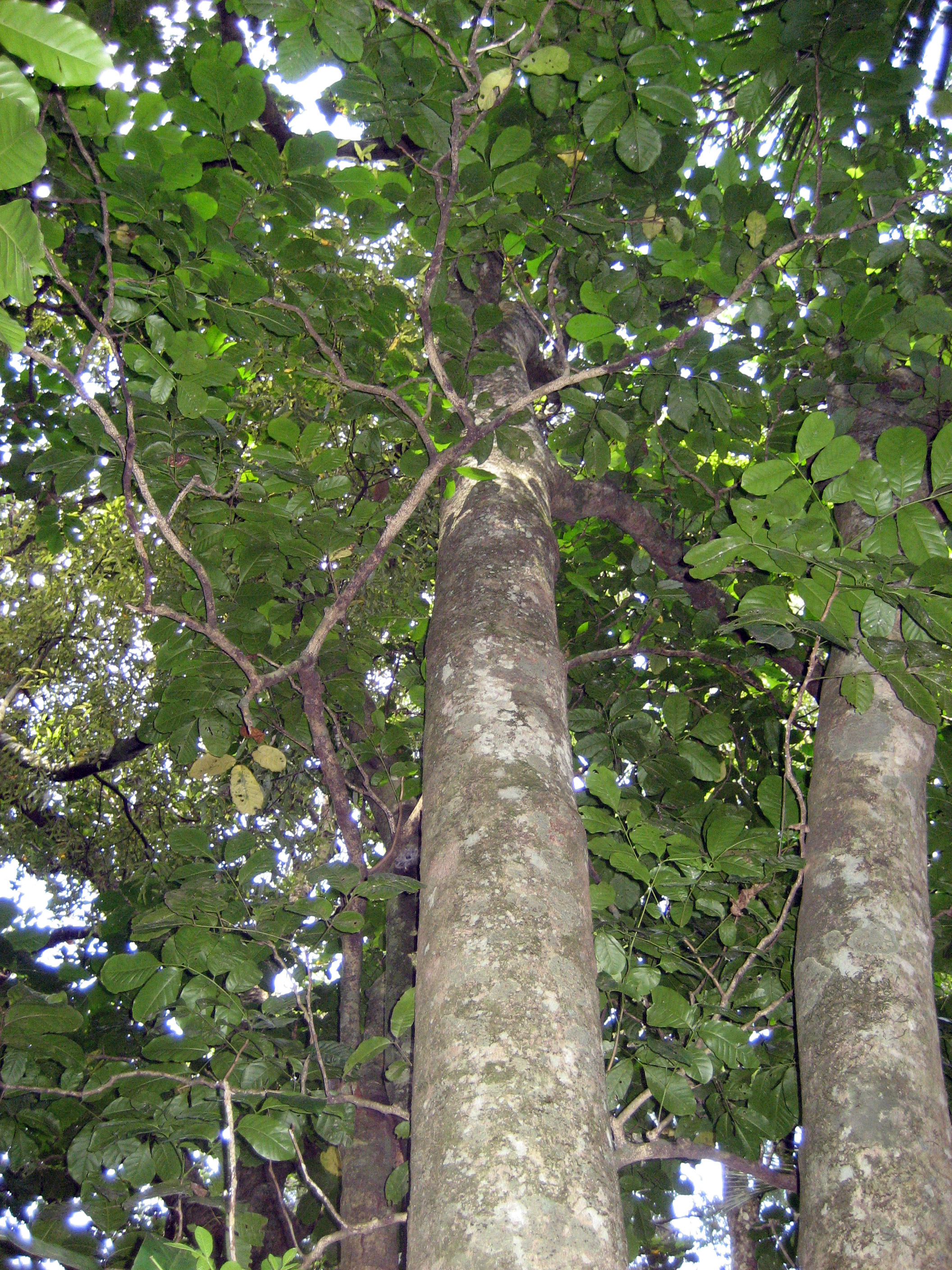 Dysoxylum spectabile, Kohekohe, tree in native forest, Auckland, New Zealand